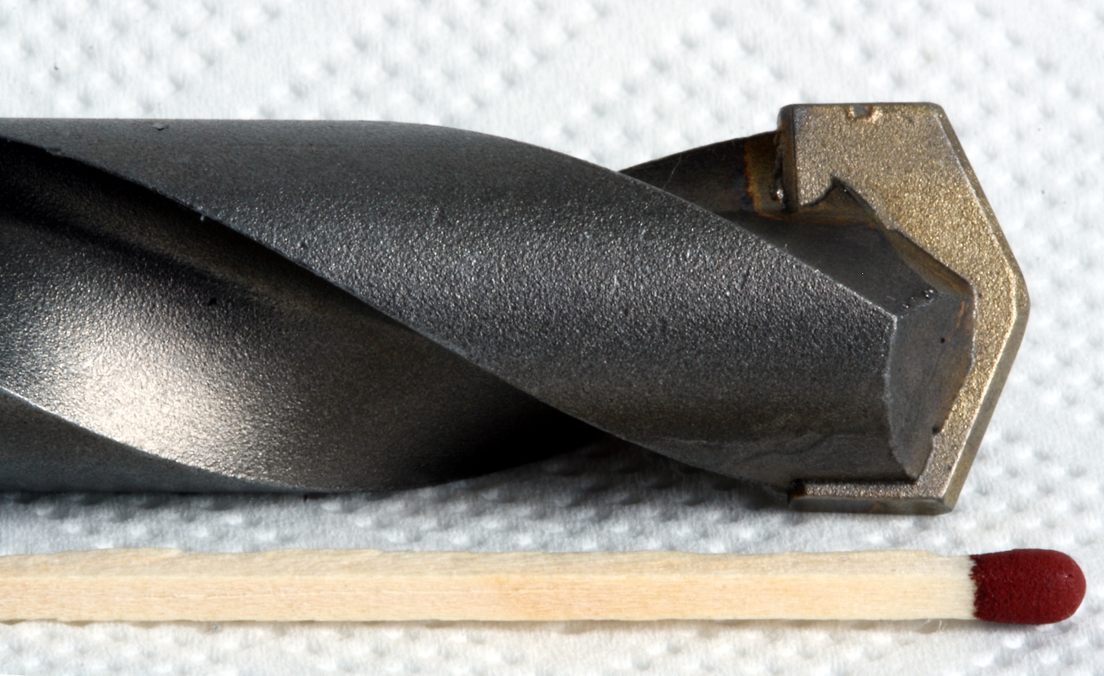 Masonry Drill Bit